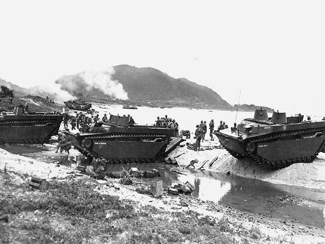 Amphibious tractors spill Marines and supplies on the beach of Ibeya, a tiny island in the Ryukyu chain, northwest of Okinawa. Landing without opposition on June 3rd, Leathernecks of the eighth regimental combat team lost no time in securing the island